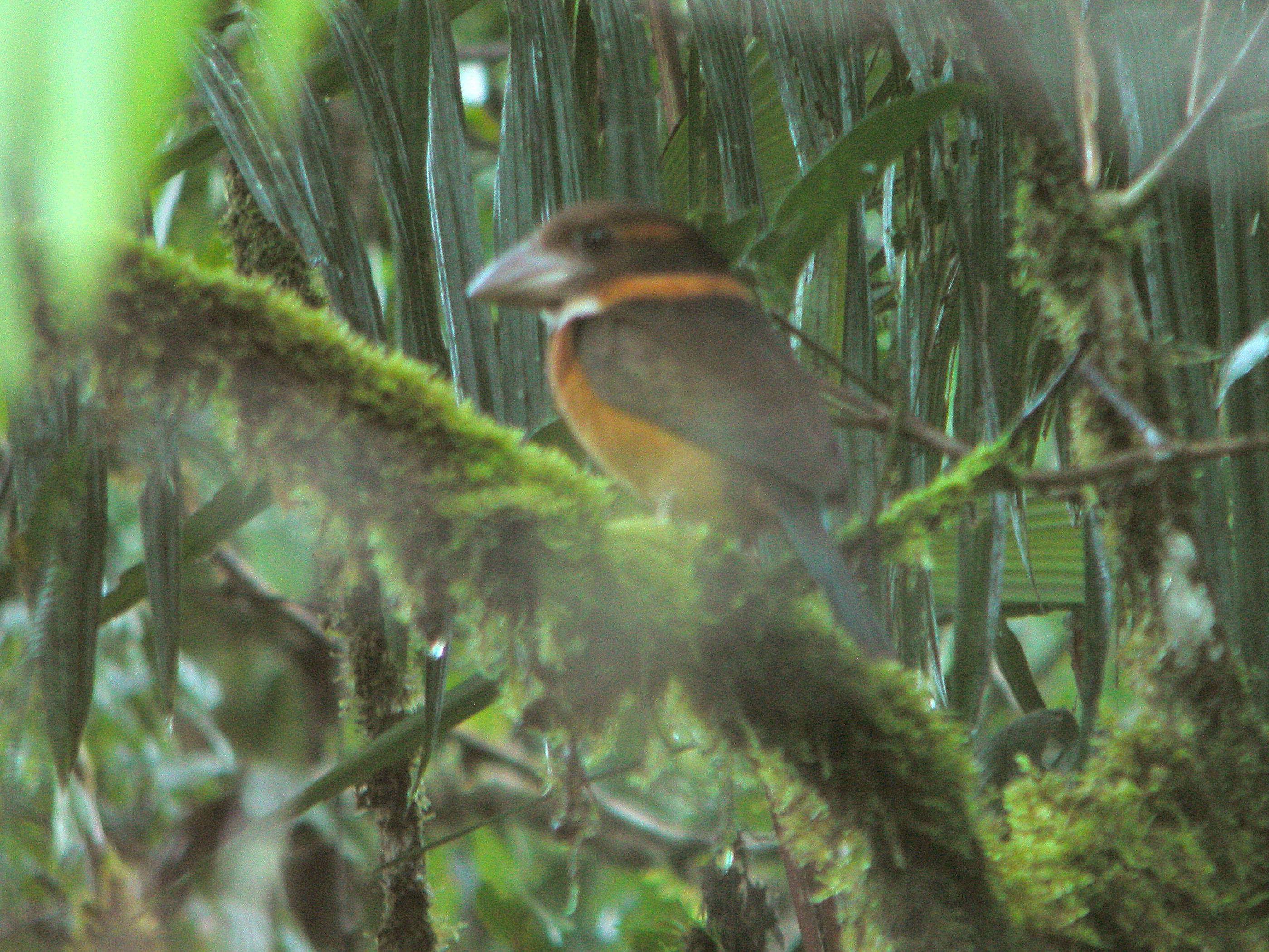 Shovel-billed Kingfisher Clytoceyx rex, Papua New Guinea